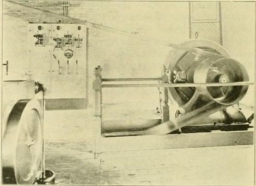 Walker generator and switch board of Waukesha Beach Railway